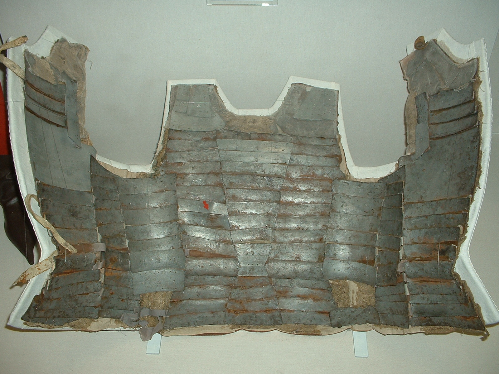 Brigandine, Italian, c1470 Internal view. Museum legend reads: Brigandine Italian, about 1470 Shown opened out to reveal its construction. Its name was derived from the infantry 'brigans' who first wore it. It was formed of tinned iron plates riveted inside a canvas jacket. This example is covered with dark brown or black fustian (soft cotton cloth). Photographed by me (Gaius Cornelius), at the Royal Armoury, Leeds 08-Jun-06.